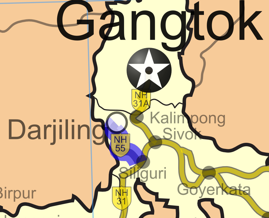 National Highway 55 in India